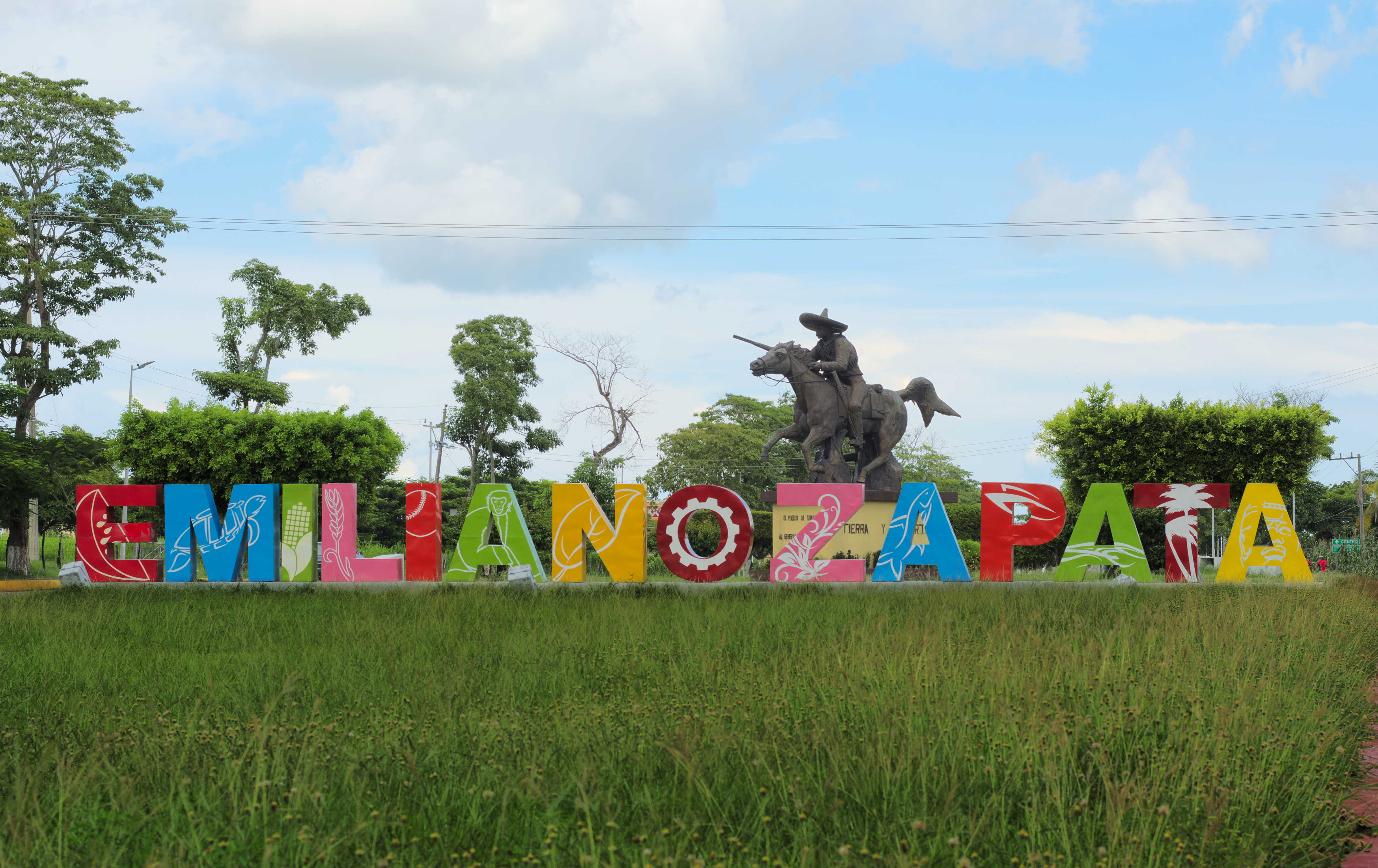 Emiliano Zapata, Tabasco, city entrance